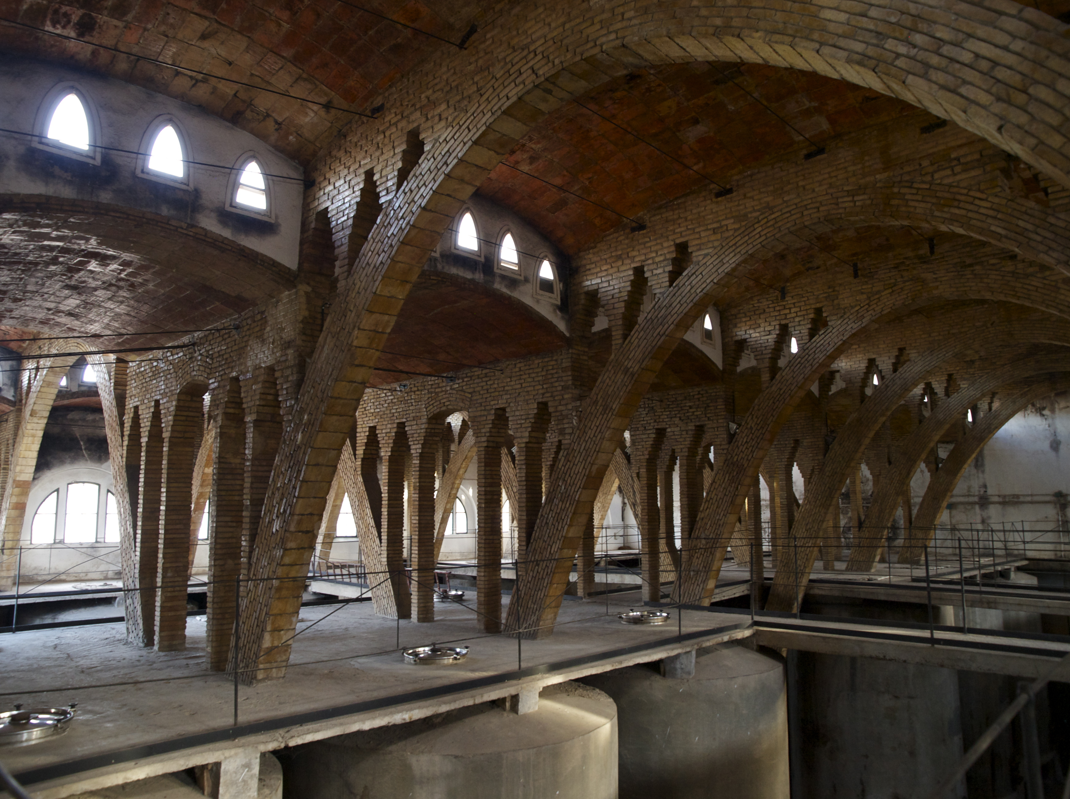 Celler Cooperatiu de Gandesa (Catalonia) Architect: Cesar Martinell